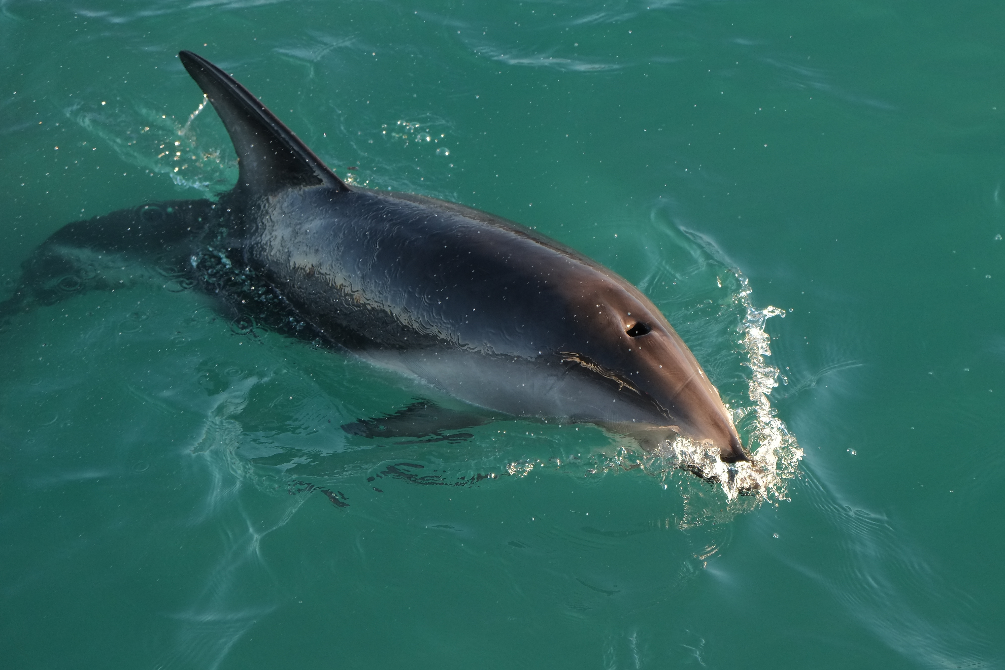 Dusky Dolphin on the surface (near Kaikoura), its blowhole clearly visible